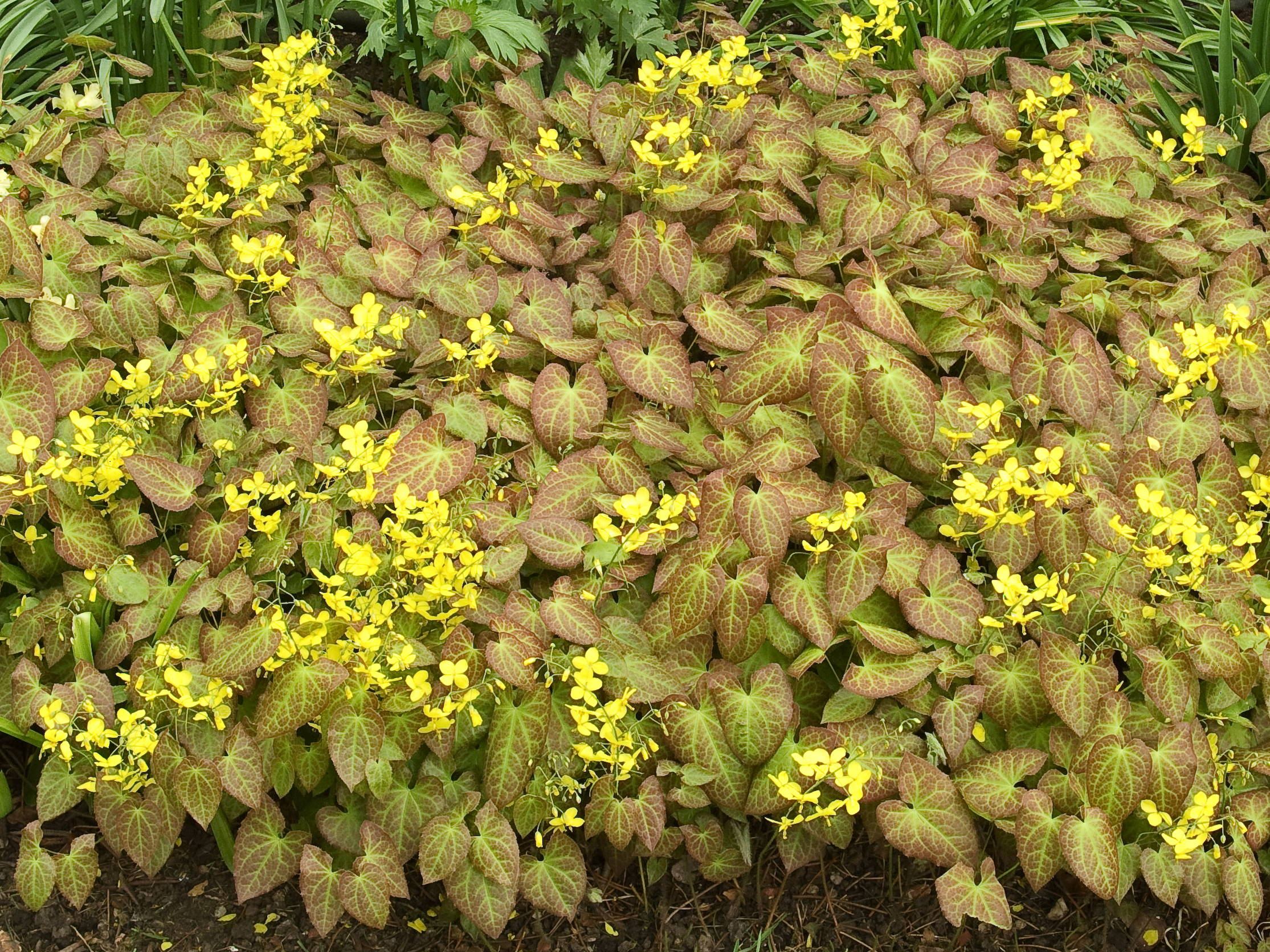 Epimedium × perralchicum 'Fröhnleiten' growing in a garden in the English midlands, showing bronze-tinged new foliage